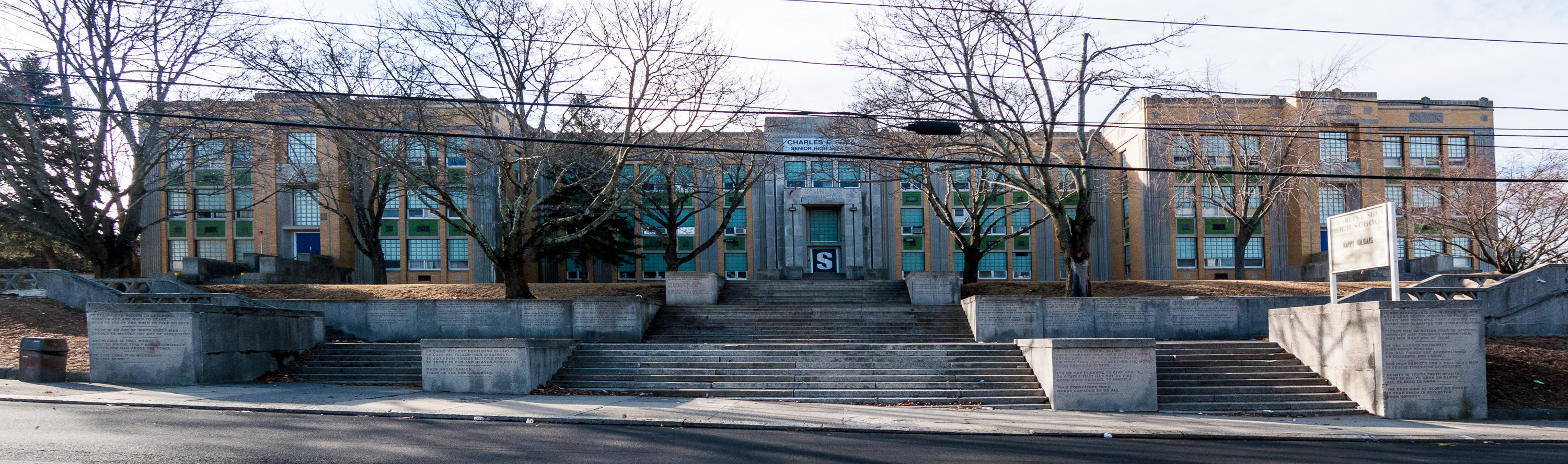 Charles Shea High School, Pawtucket, Rhode Island